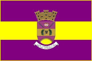 Flag of Canovanas